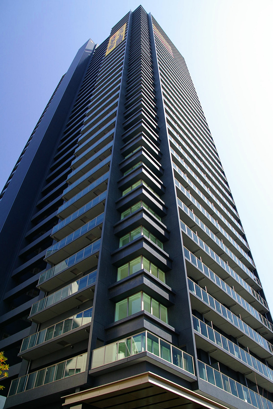 High-rise apartment, City Tower Osaka Fukushima, Fukushima-ku Osaka city, Japan